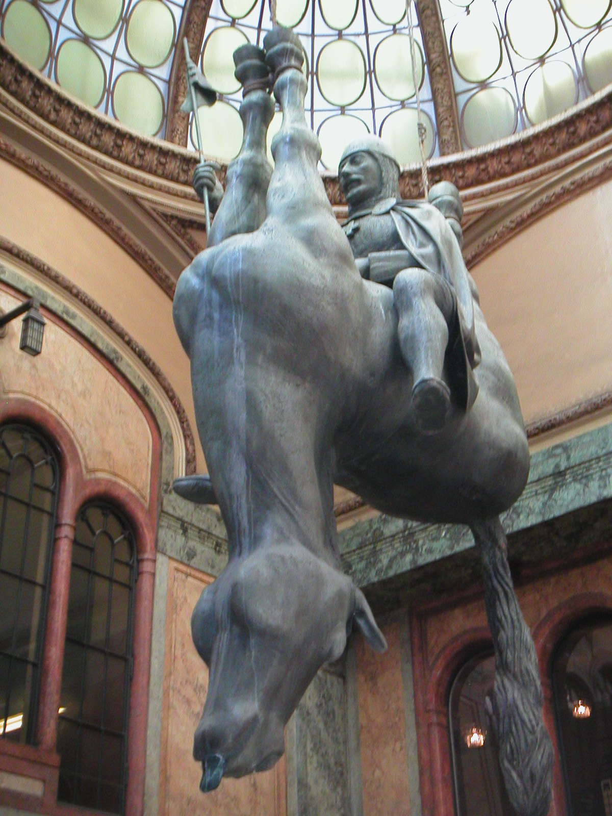 Statue of St. Wenceslas riding an inverted horse. It is located in the entrance to the Lucerna theater on the southeast side of Wenceslas Square. Sculpture by David Cerný, executed in foam, but made to resemble patinated bronze.